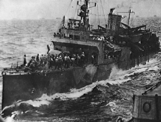 The U.S. Navy high-speed transport USS Colhoun (APD-2) underway to Guadalcanal. She carried units of the 1st Marine Raider Battalion in the initial assault landings on Guadalcanal on 7 August 1942 and continued to serve as both transport and antisubmarine vessel in support of the invasion. At 1400 on 30 August, while Colhoun was on patrol off Guadalcanal, she was sunk in a Japanese air raid.